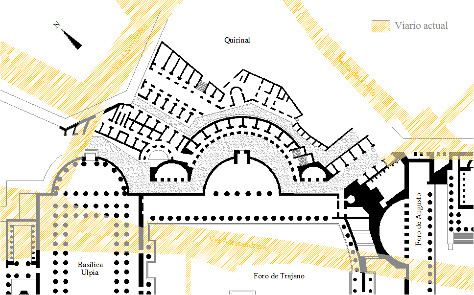 Plane of Trajan's Market (aproximate)